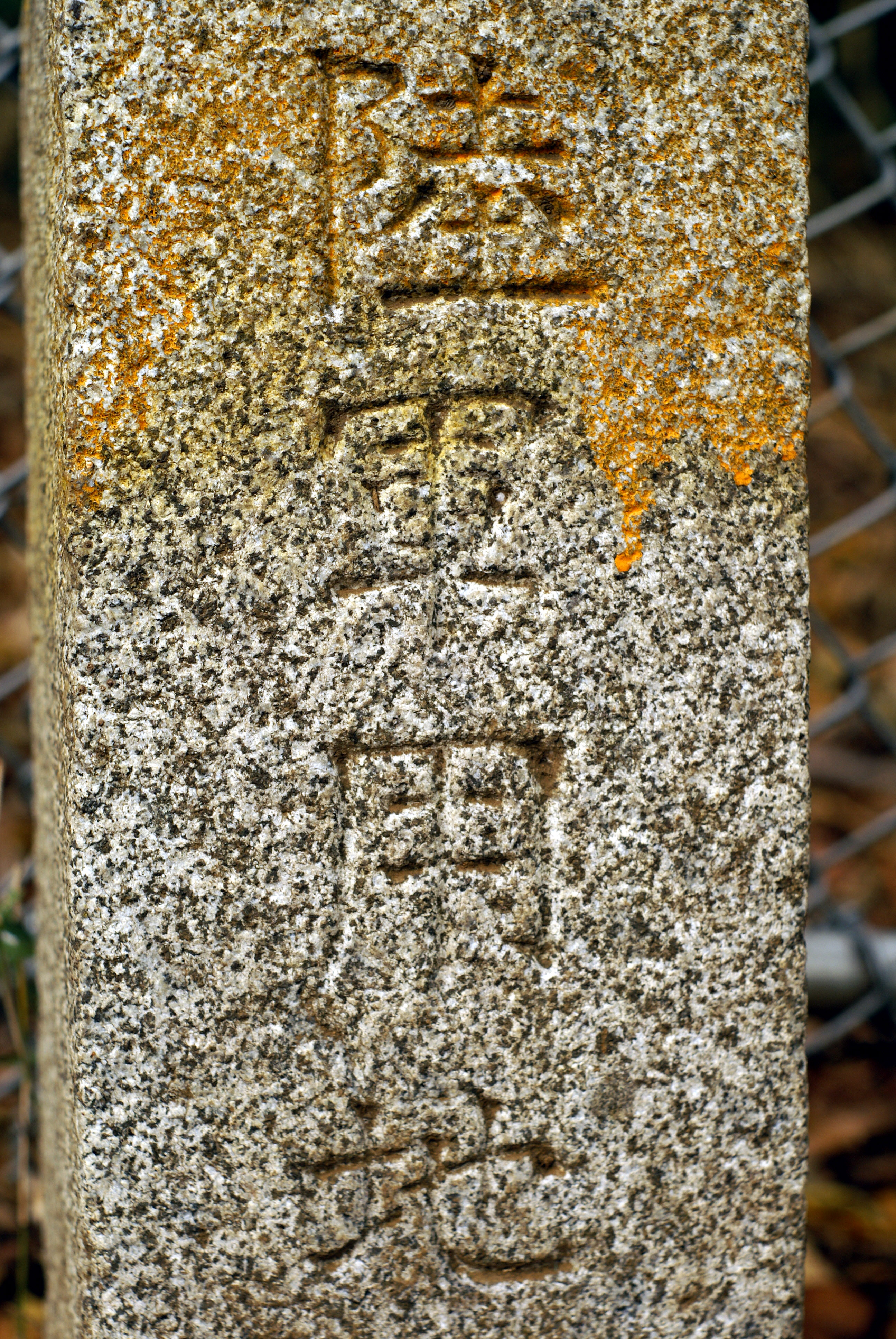 A marker that announces "this is the area owned by Imperial Japanese Army"